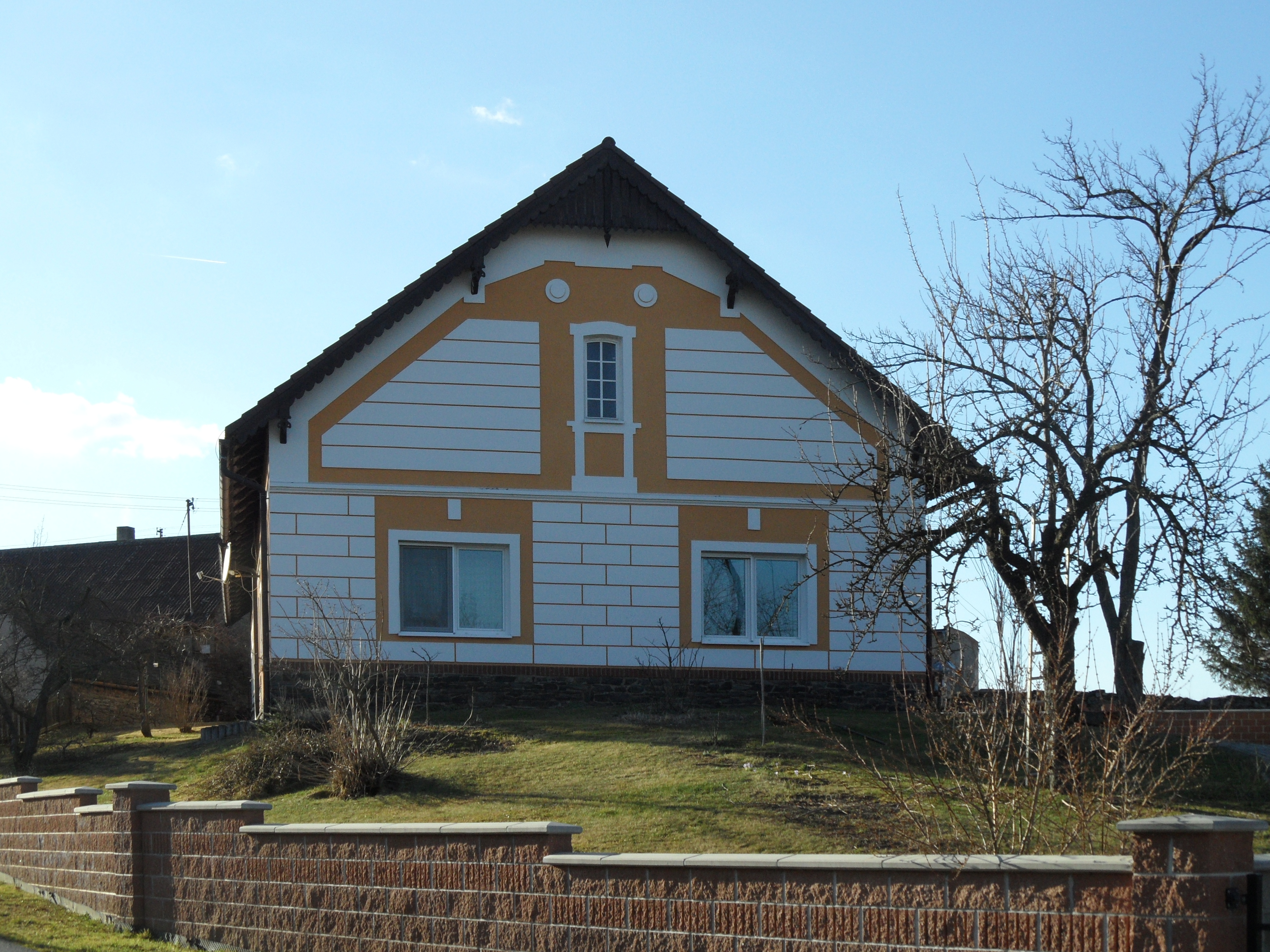 Zvěstovice F. House No. 21, Havlíčkův Brod District, the Czech Republic.